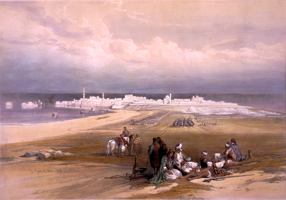 St. Jean d'Acre April 24th 1839 / David Roberts. View from land.